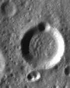 Kosberg lunar crater - part of the chart LAC-102